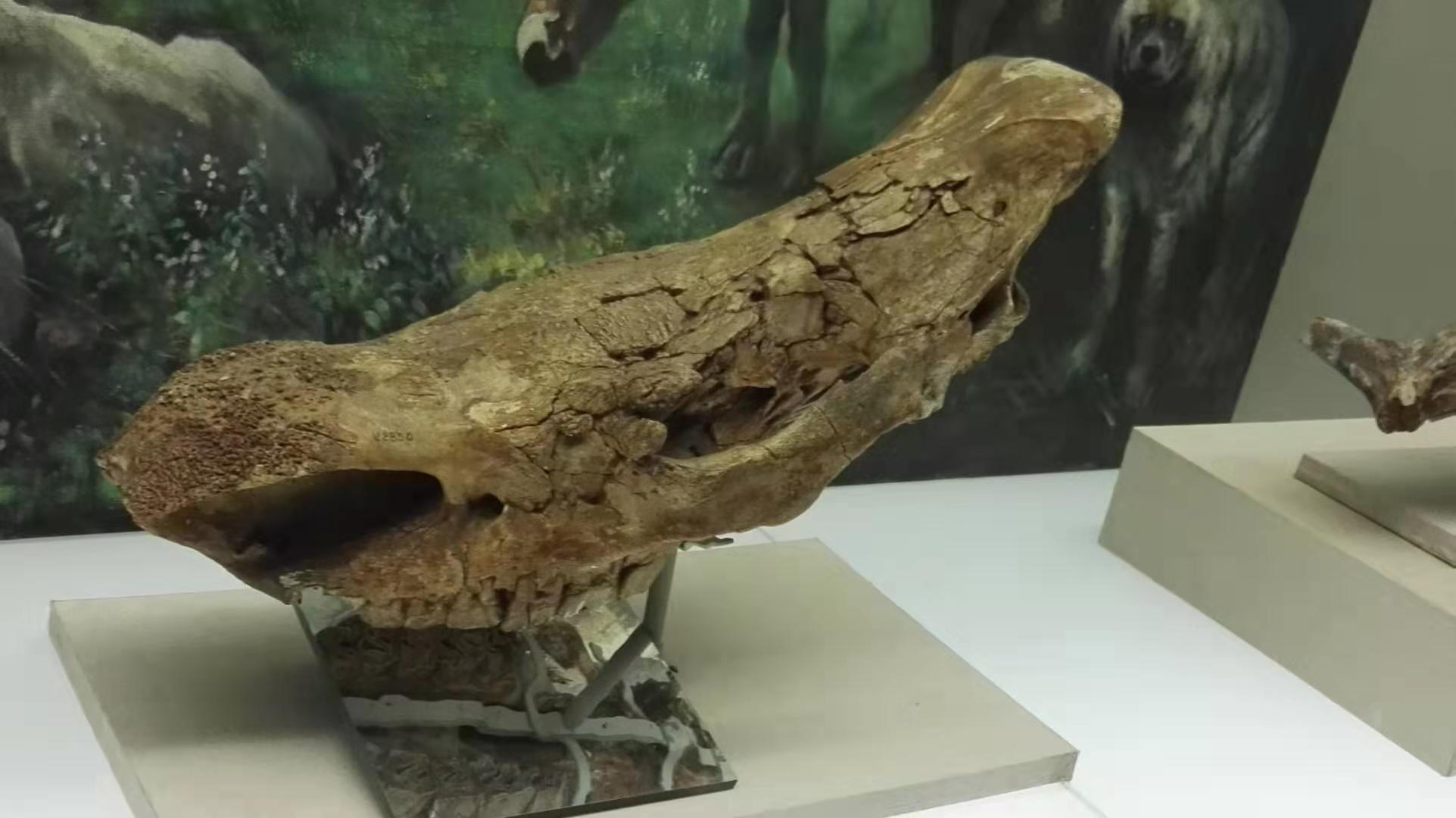 Coelodonta antiquitatis shansius fossil in Shanxi Museum